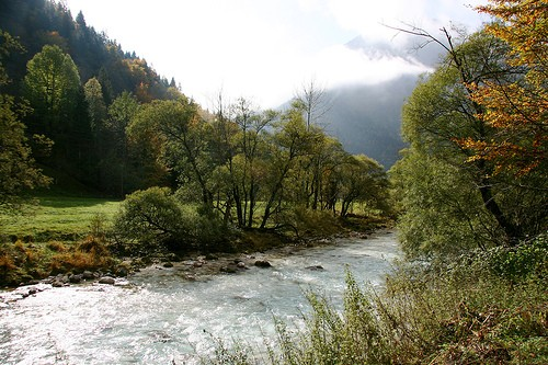 Taken by Nick Fraser in Oct 2005. Soca River near Bovec.